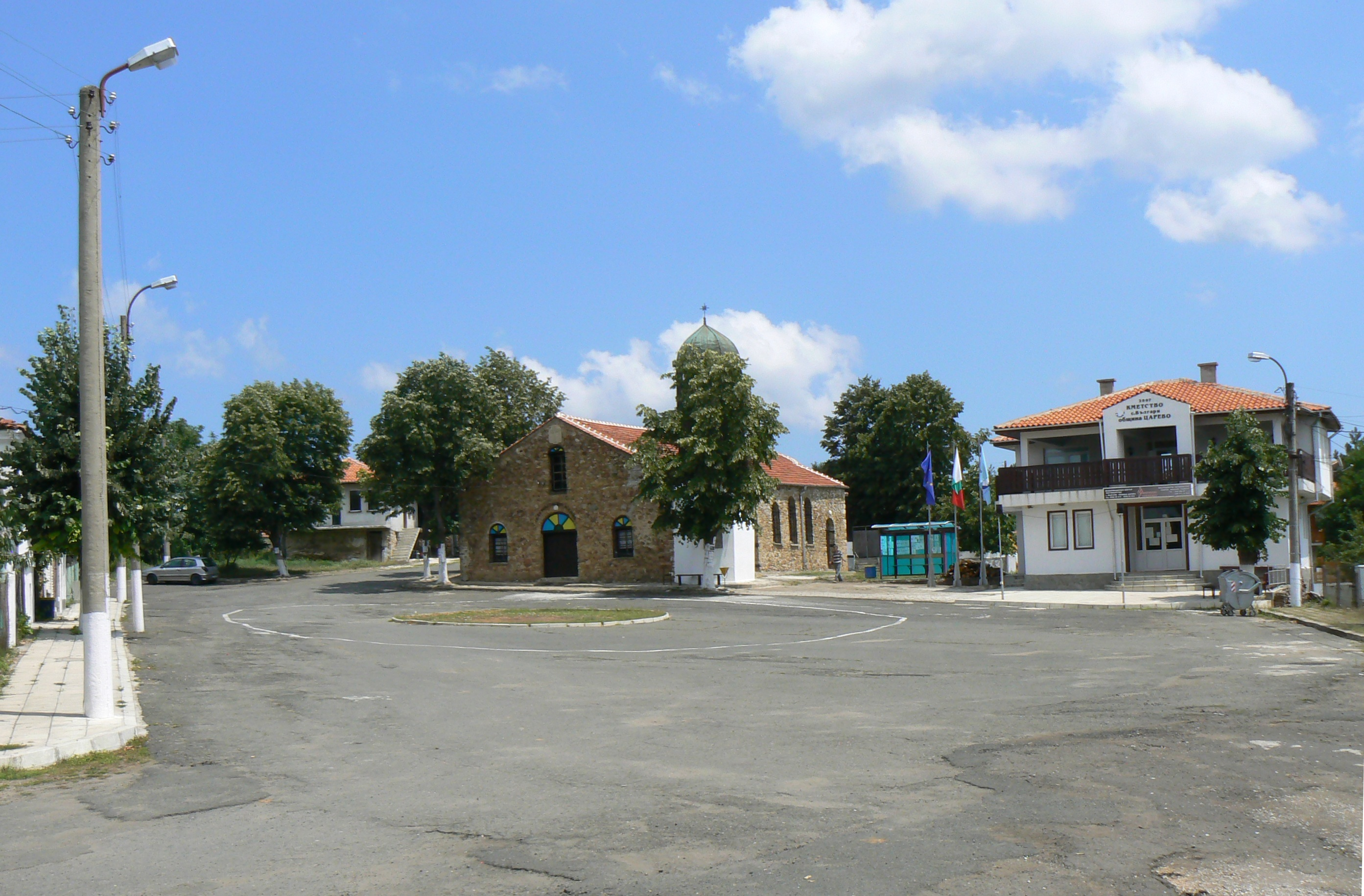 The centre of village Balgari, Burgas district, Bulgaria. The church, the mayor's office and the circle in which the nestinars are dancing on embers